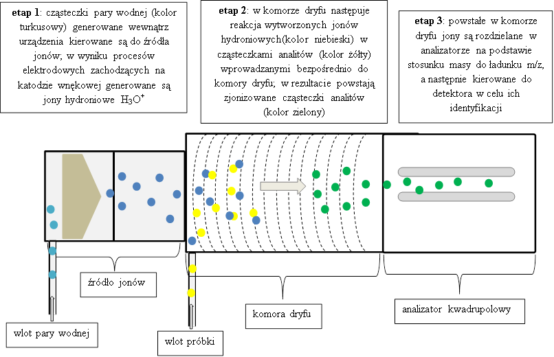 Hydronium ions generated from water vapor in an ionizer are reacting with analytes in a drift chamber. Newly generated ions are separated in an analyzer based on the mass to charge ratio, and are subsequently transferred to a detector where identification takes place.